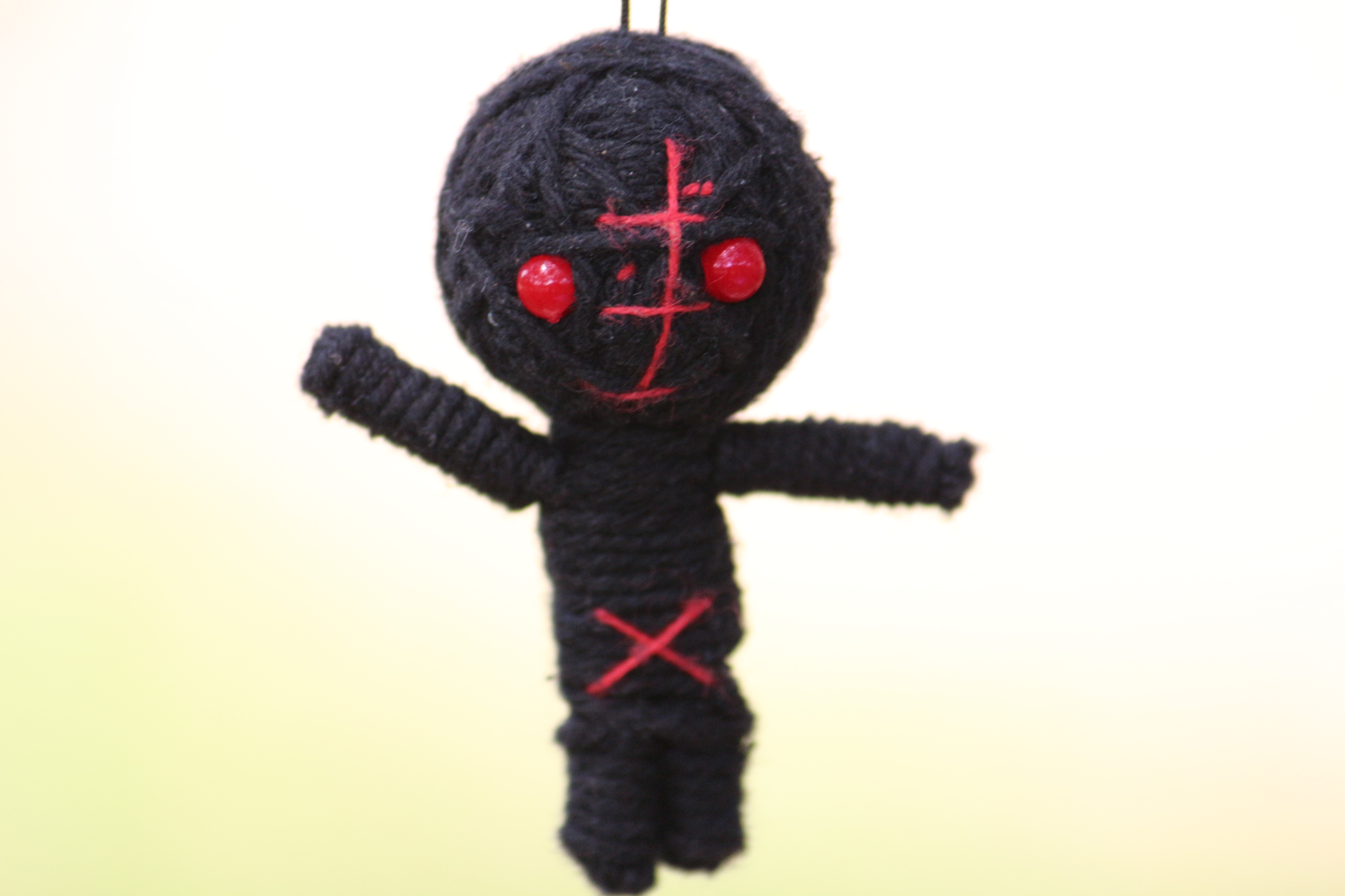 This photo was one of my first shots with the camera.